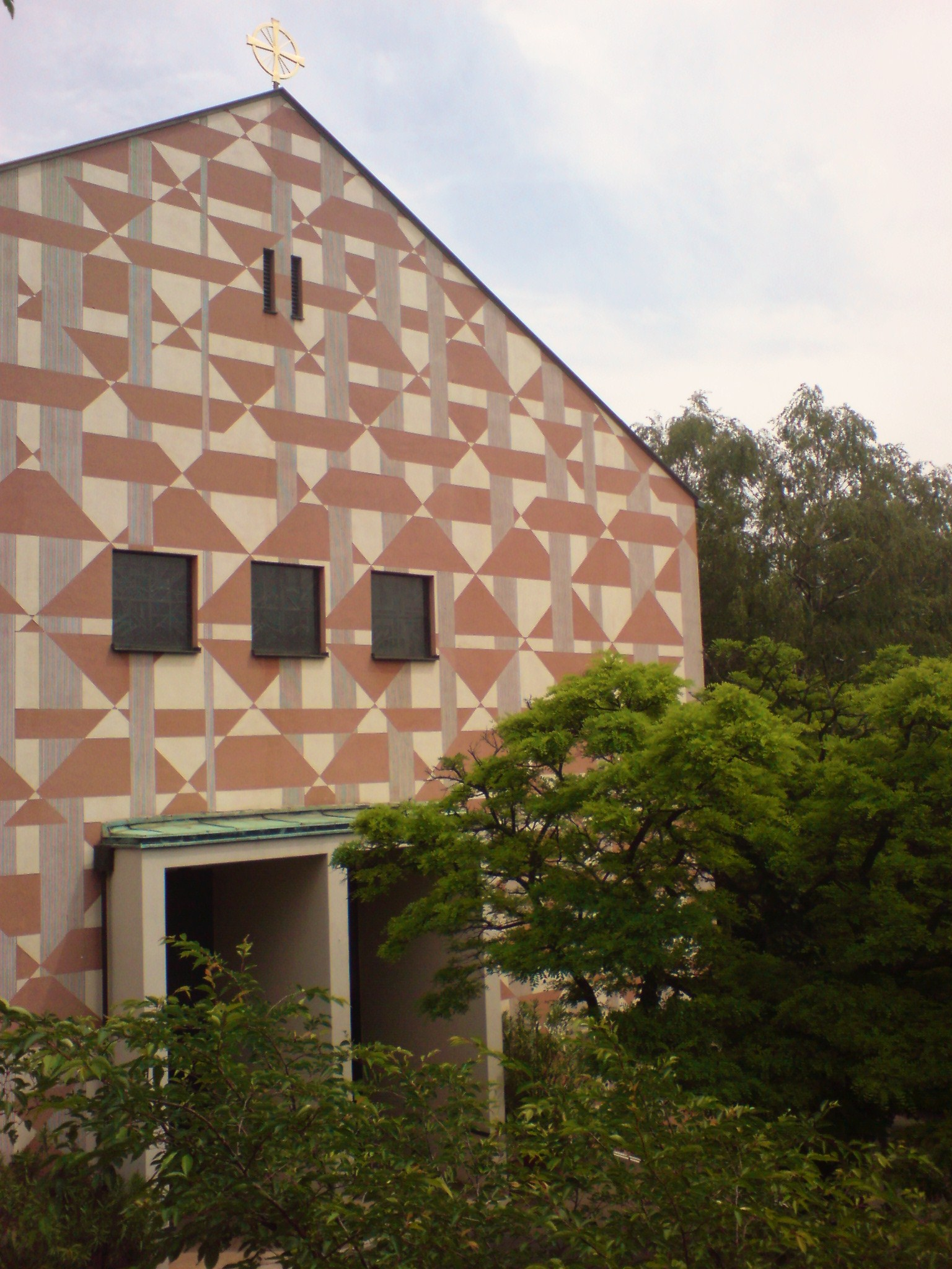 Roman-catholic St. Mary Rosary church in the borrough of Seckbach in Frankfurt, Hesse, Germany